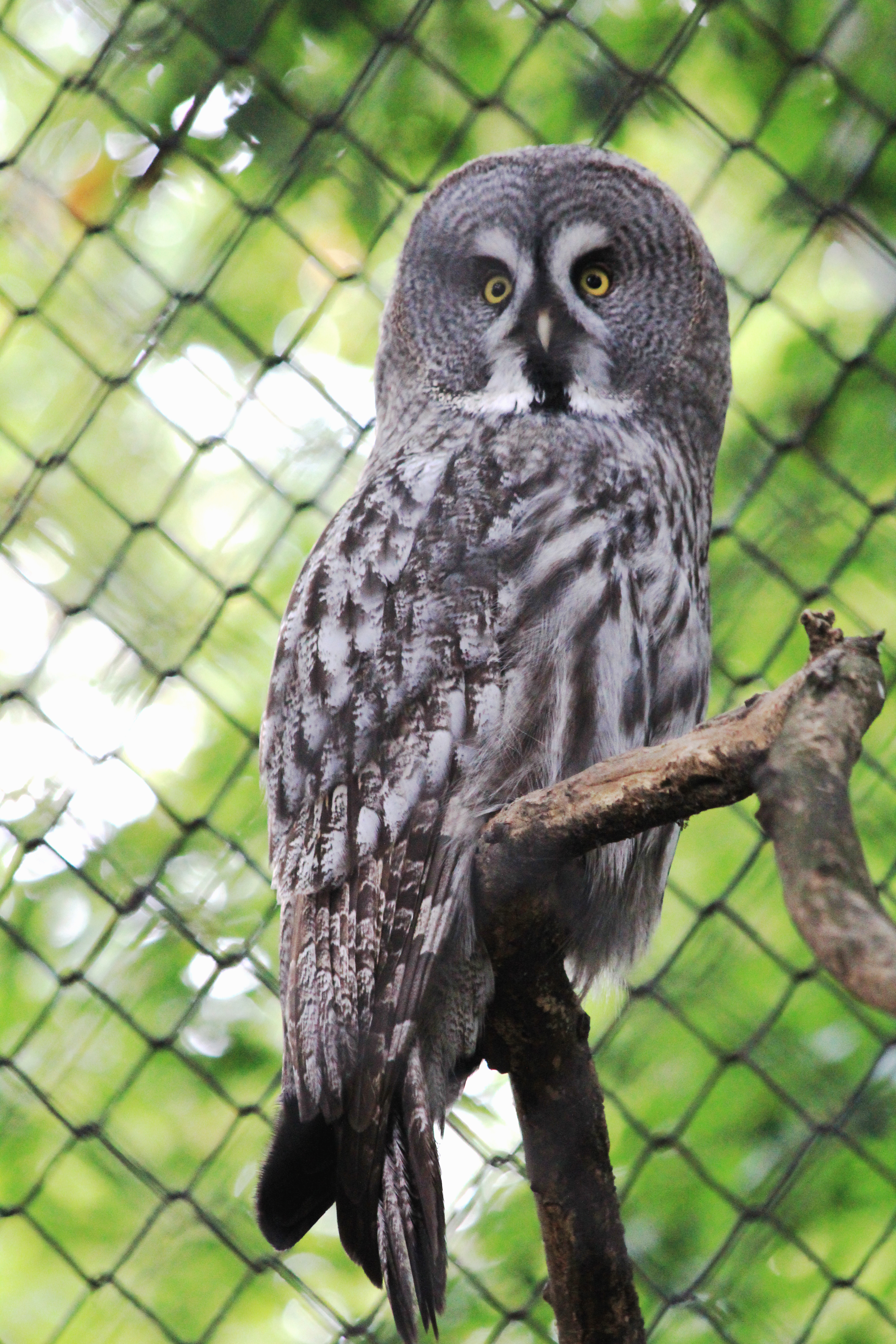 Great Grey Owl (Strix nebulosa) in Prague Zoo, Czech Republic Česky: Puštík vousatý v Pražské zoologické zahradě